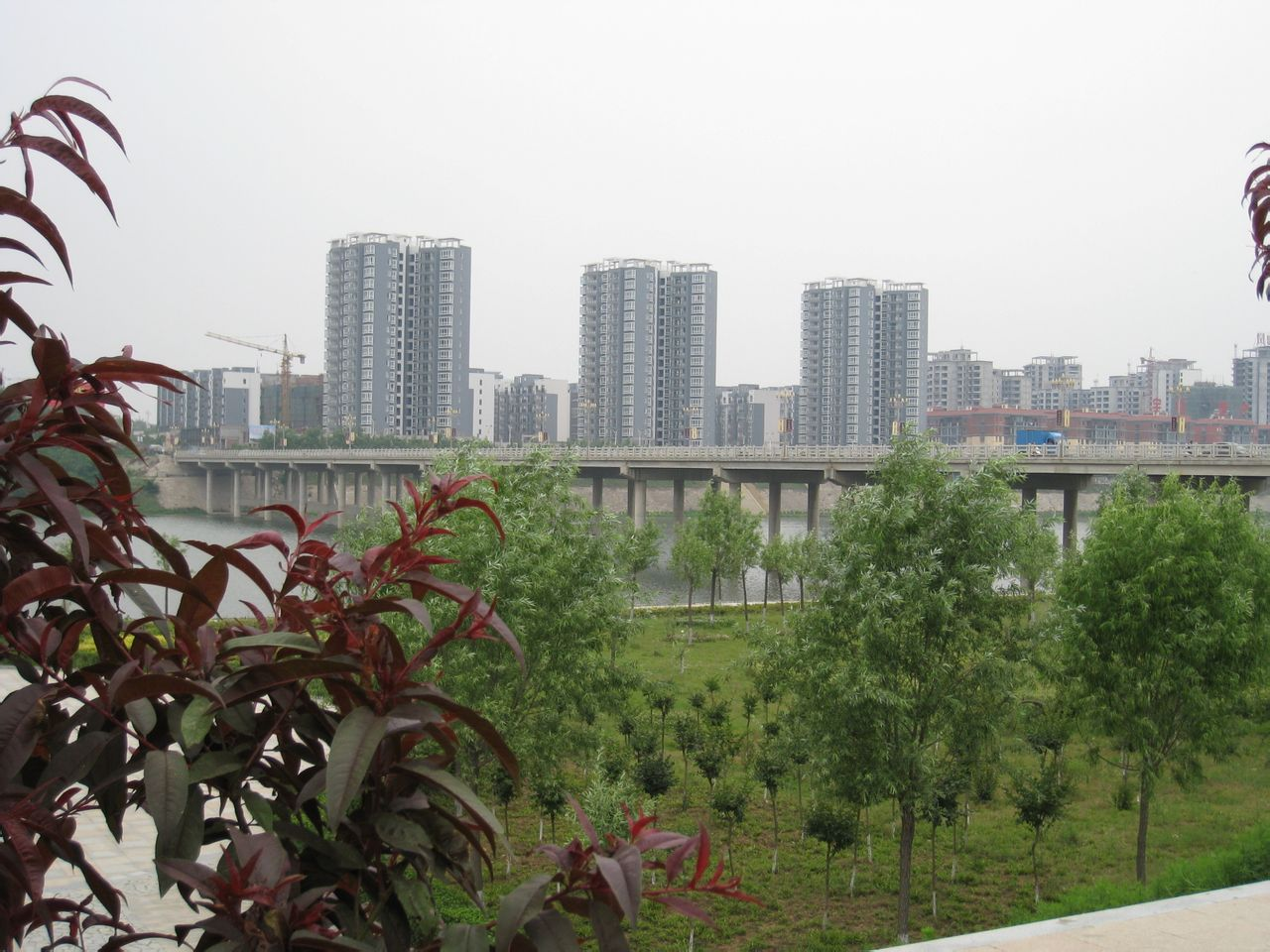 Tanghe look westwards near new bridge